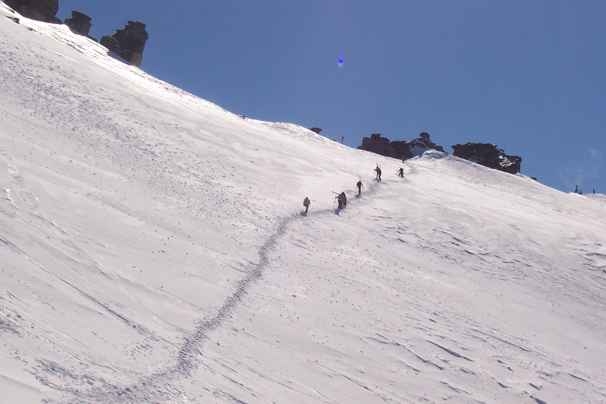 people hiking to the summit of treble cone, wanaka